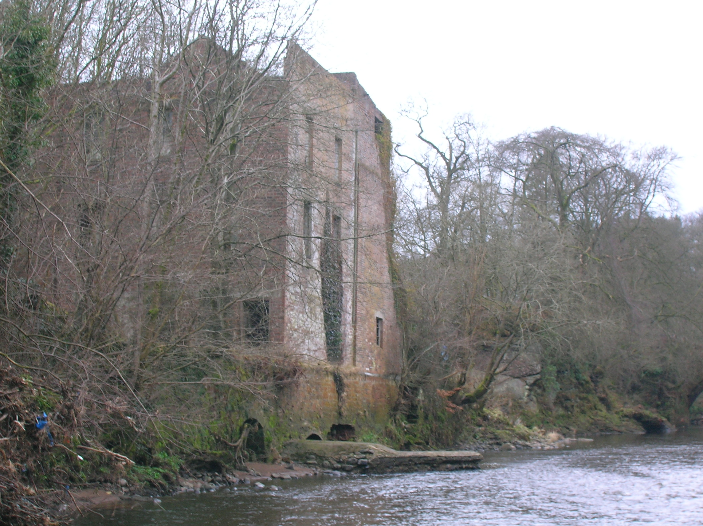 The old mill Barskimming Mill, near the confluence with the Lugar, East Ayrshire, Scotland. Mauchline.